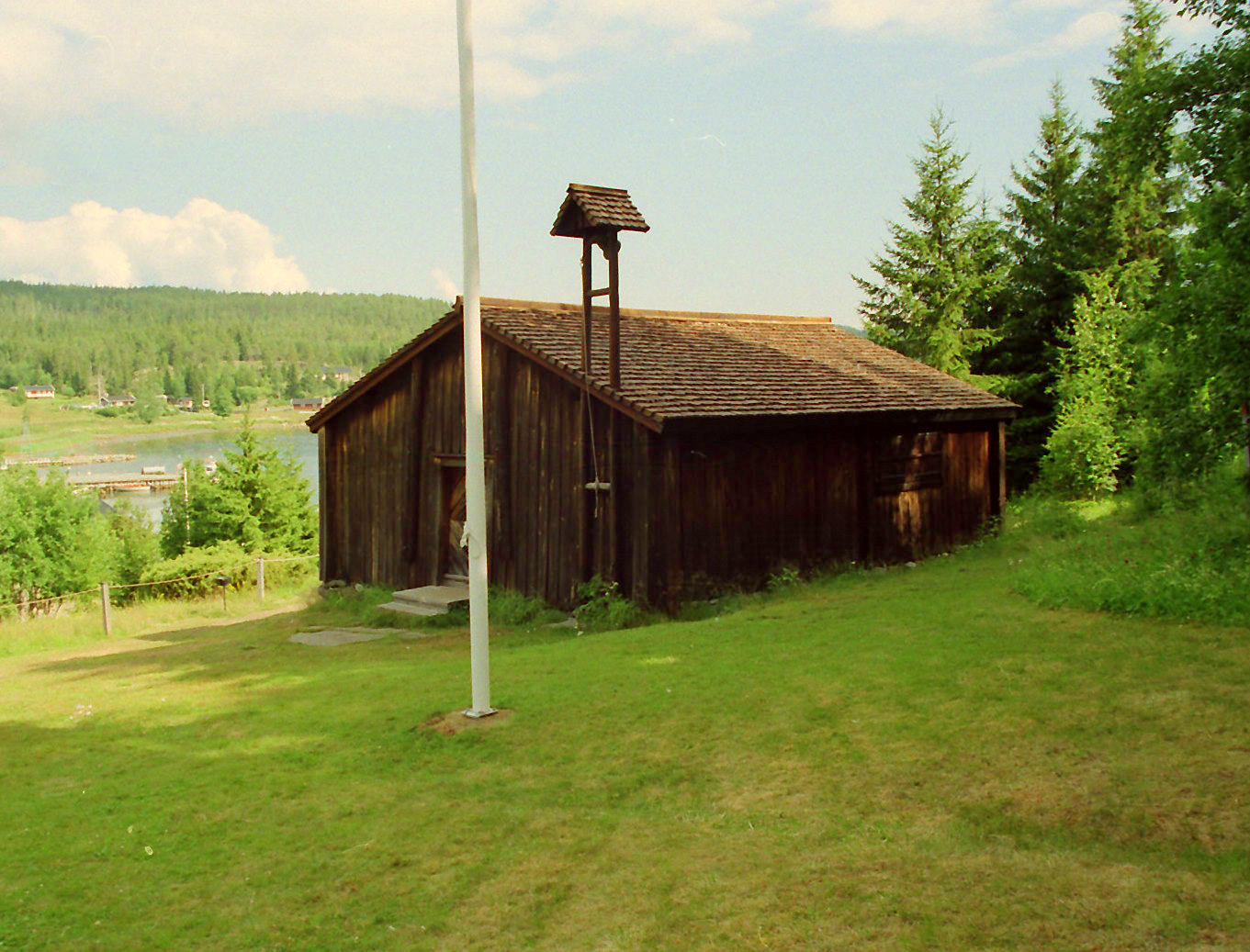 Barsta chapel